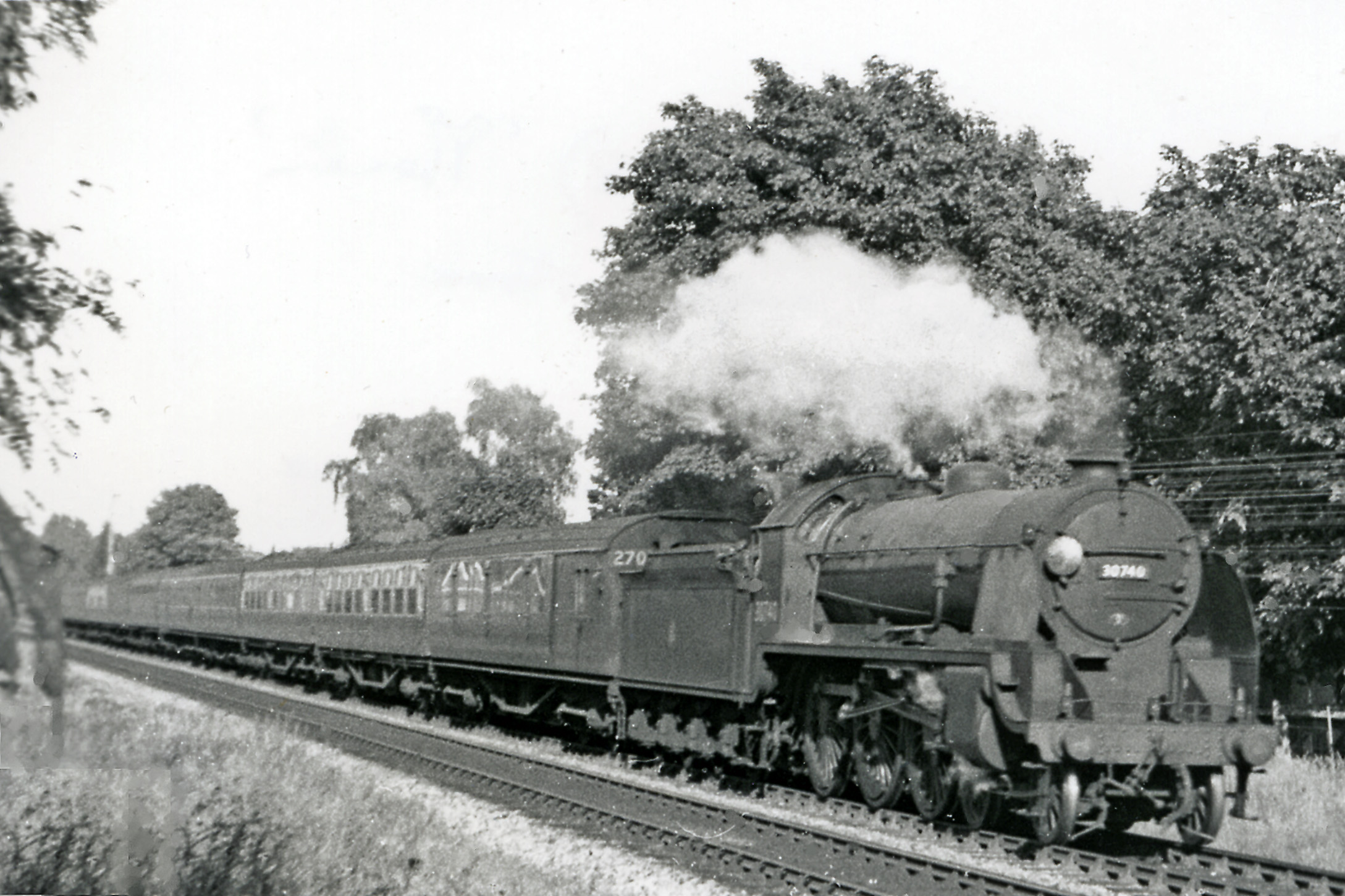 Down empty stock between Branksome and Parkstone. View eastward, towards Bournemouth, Southampton etc.: ex-LSW London - Southampton - Weymouth main line. The train is headed by ex-LSW Urie 'King Arthur' class N15 4-6-0 No. 30740 'Merlin' (built 3/19, withdrawn 12/55).